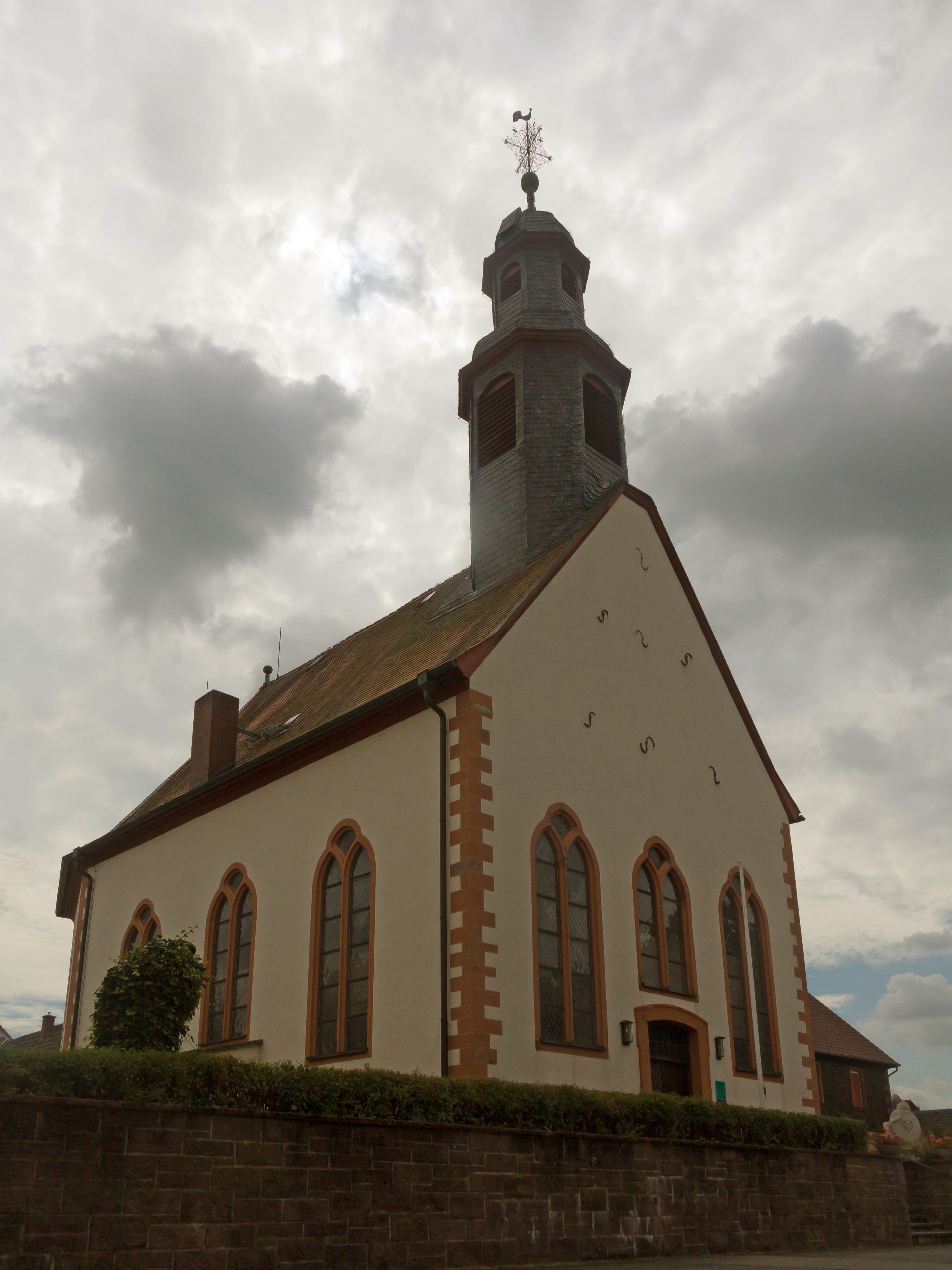 Gronau (Bad Vilbel), reformed church